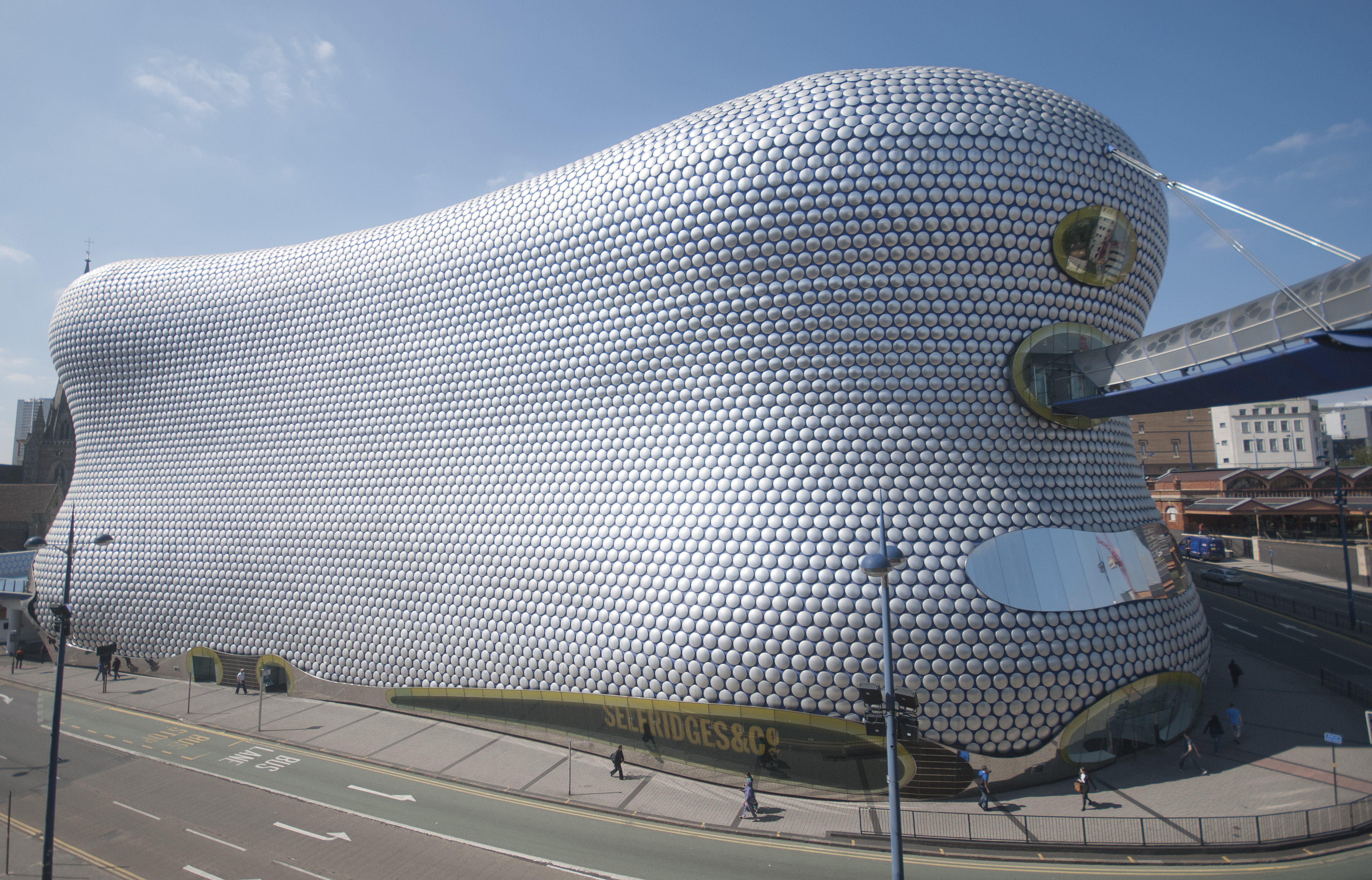 The Selfridges building in Birmingham by architect Jan Kaplicky of Future Systems. This building IS the future.